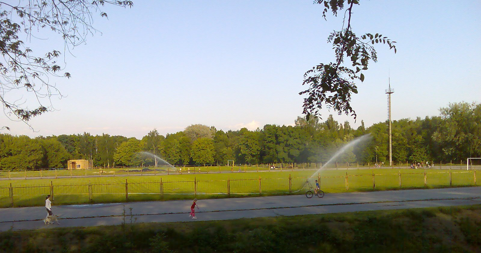 Zenit Stadium in Boyarka.